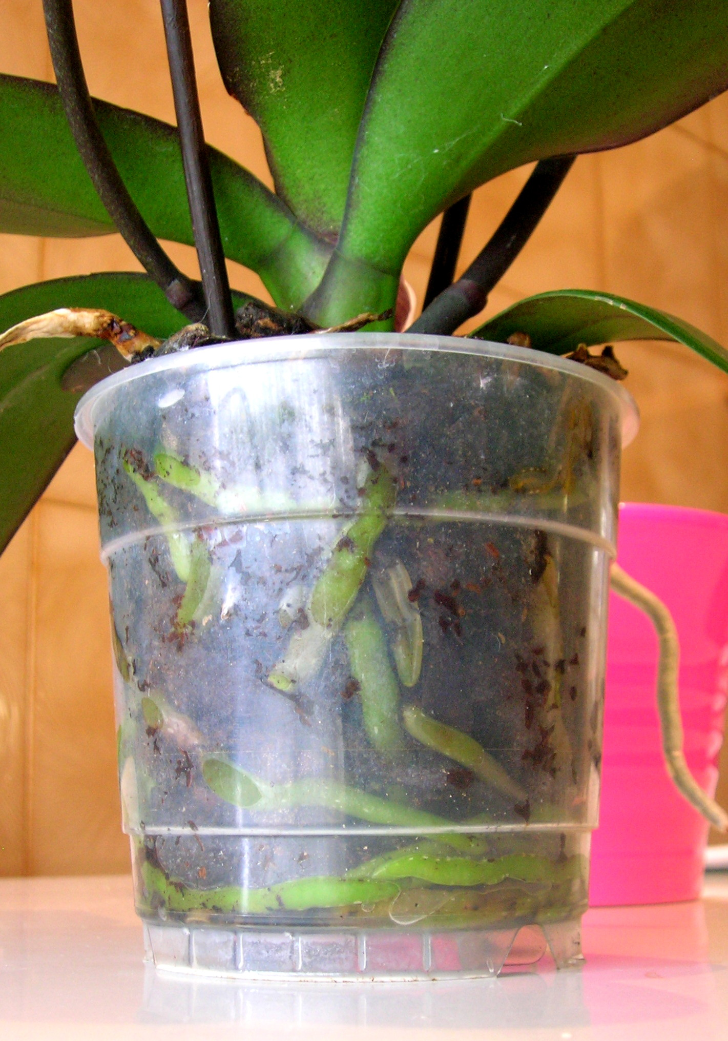 Phalaenopsis orchid roots in a transparant plastic pot. It's recommended that roots are exposed to light, since they have chlorophyll (note the bright green colour) to allow photosynthesis.